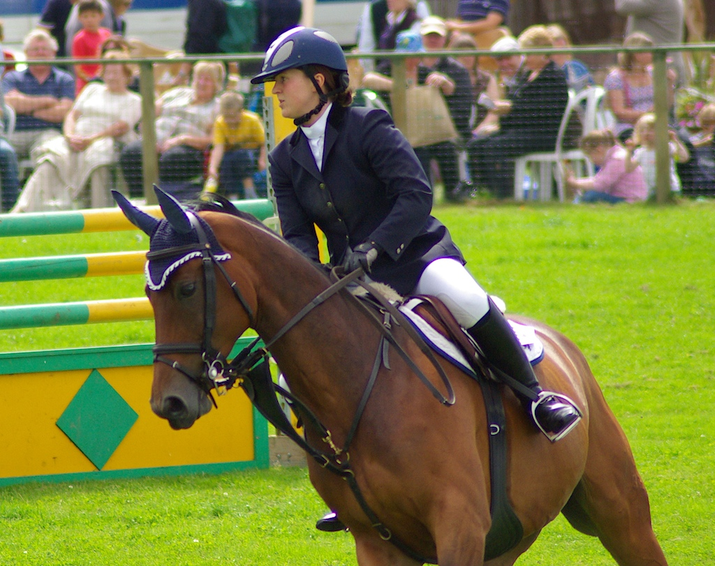 Show jumping at Monmouth Show. Cornering before the next jump. Moving in a confined space and remembering the sequence of fences always strikes me as a additional challenge to the jumping itself.